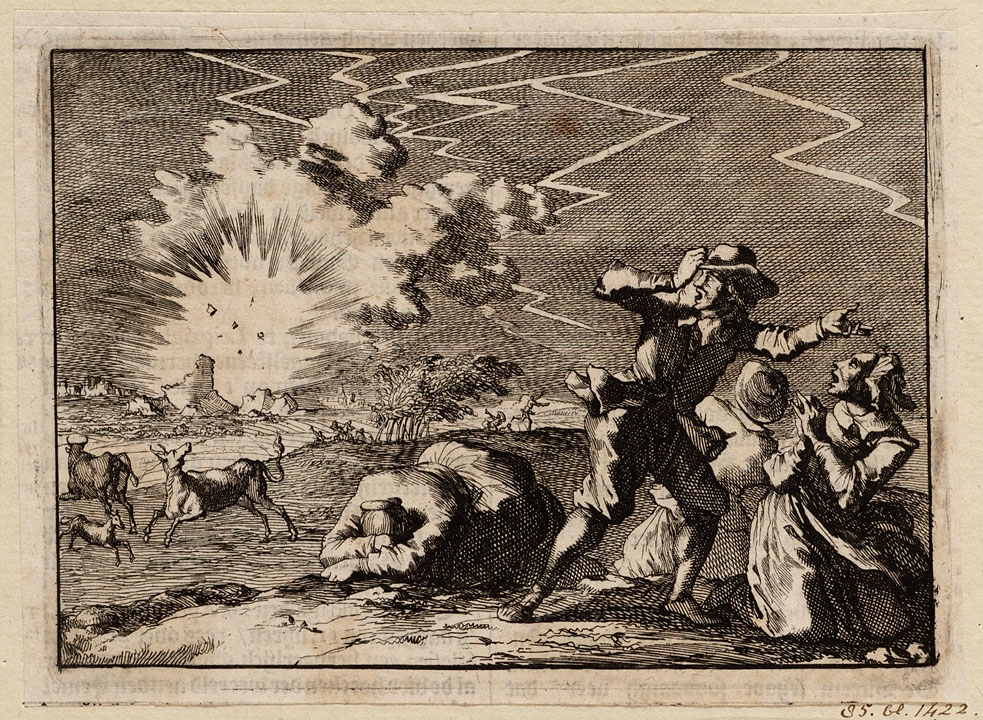 The pulverturm (Gunpowder tower) of Rheinberg blows up in 1636.